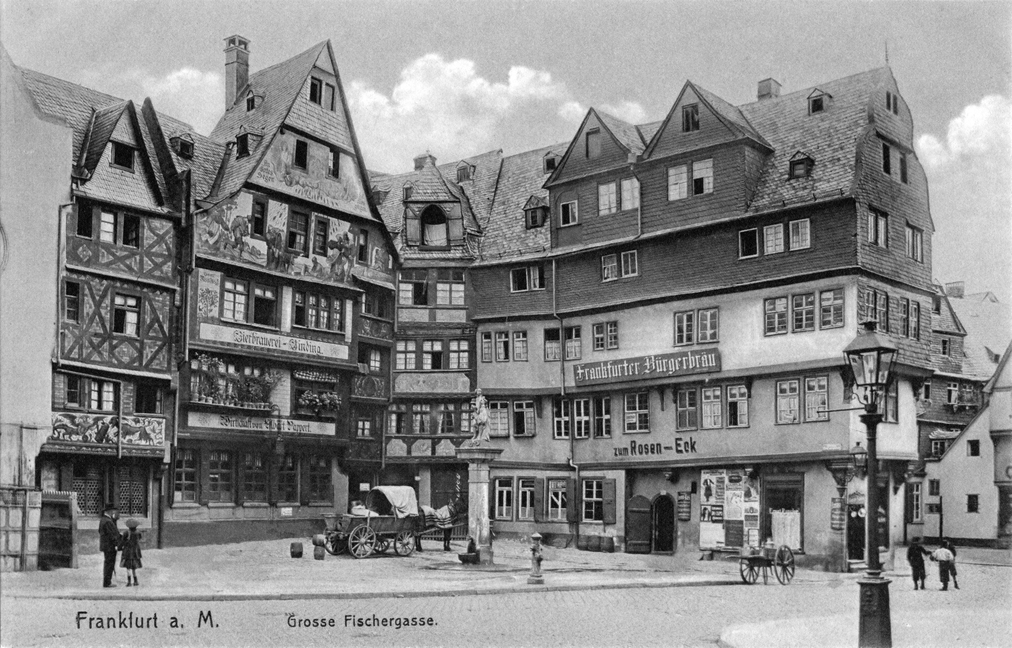 Frankfurt on the Main: Set of houses at the Grosse Fischergasse (Great Fisher Lane) called Roseneck as seen from the Weckmarkt (Roll Market) to the southwest